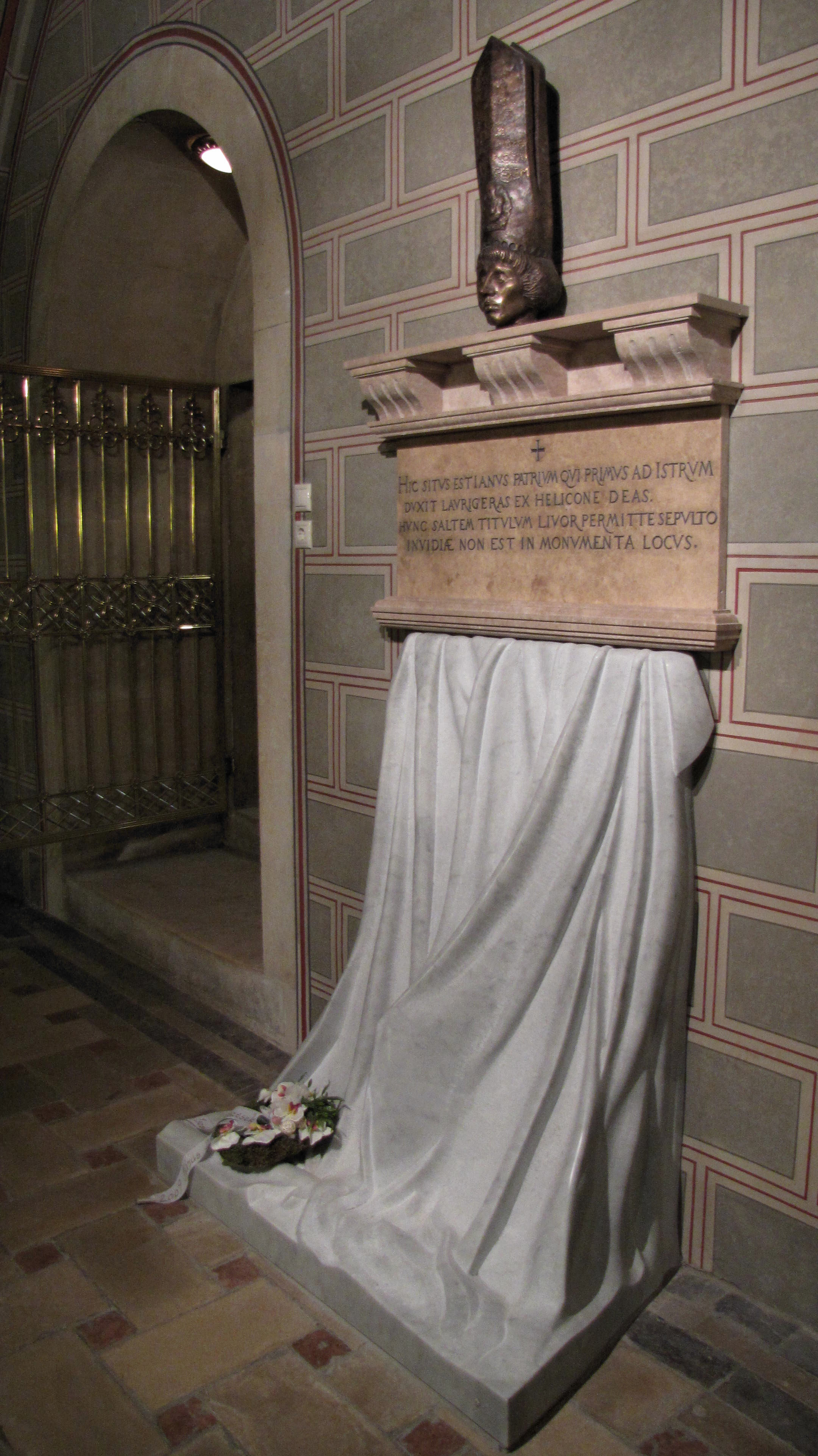 Pécs, tomb and epitaph of Janus Pannonius, former bishop of Pécs, by sculptor Sándor Rétfalvi (2008 Bronze head, a carved Carrara marble). Interior of the Pécs Cathedral